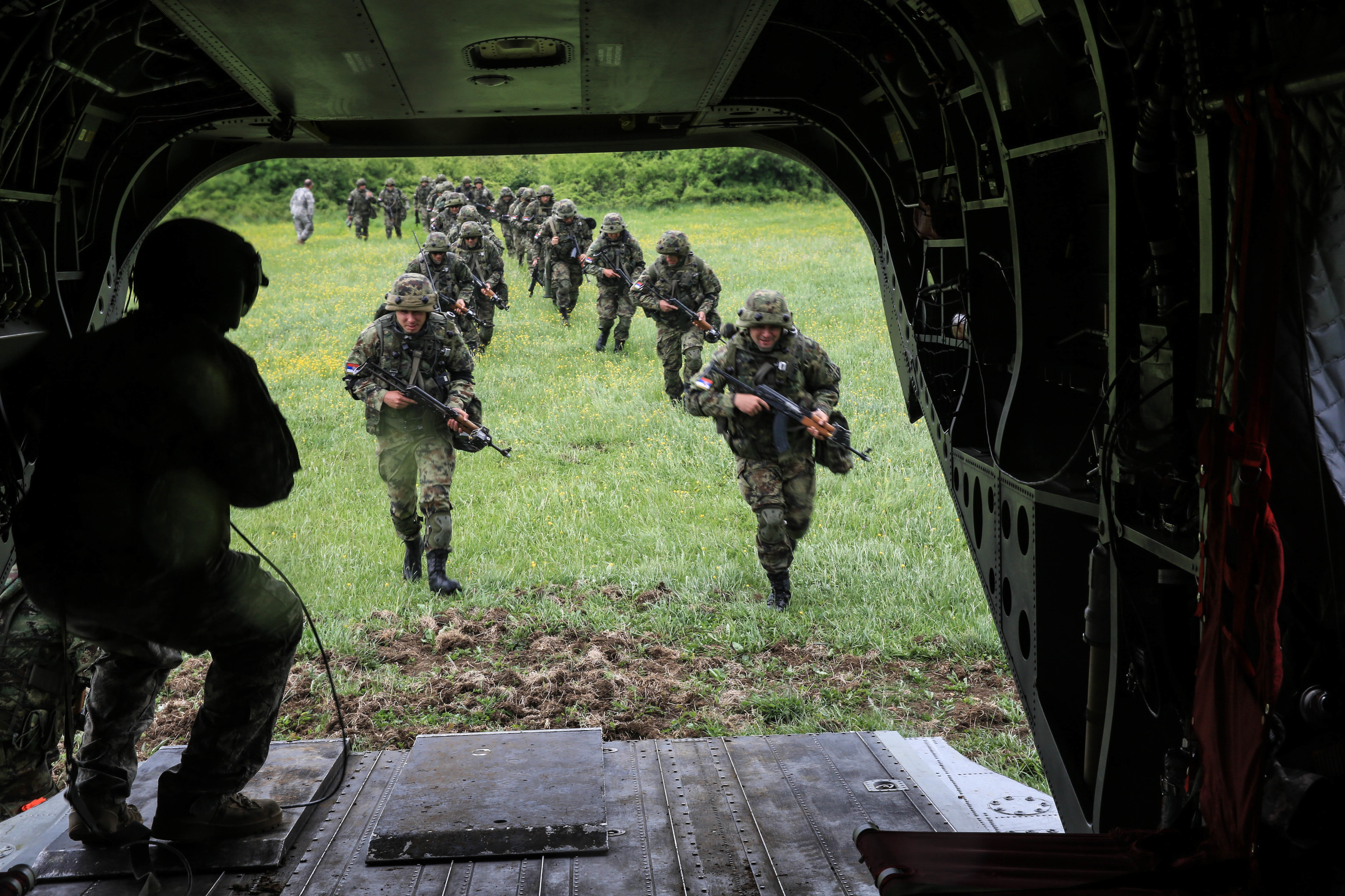 Serbian soldiers of 1st Company, 31st Infantry Battalion, 3rd Infantry Brigade, load into a CH-47 Chinook helicopter with U.S. Soldiers of Alpha Company, 4th Battalion, 3rd Aviation Regiment, 3rd Combat Aviation Brigade, 3rd Infantry Division, to conduct infiltration operations during exercise Combined Resolve IV at the U.S. Army’s Joint Multinational Readiness Center in Hohenfels, Germany, May 21, 2015. Combined Resolve IV is an Army Europe-directed exercise training a multinational brigade and enhancing interoperability with allies and partner nations. Combined Resolve trains on unified land operations against a complex threat while improving the combat readiness of all participants. The Combined Resolve series of exercises incorporates the U.S. Army’s Regionally Aligned Force with the European Activity Set to train with European allies and partners. The 7th Army JMTC is the only training command outside the continental United States, providing realistic and relevant training to U.S. Army, Joint Service, NATO, allied and multinational units, and is a regular venue for some of the largest training exercises for U.S. and European forces. (U.S. Army photo by Spc. Justin De Hoyos/Released)